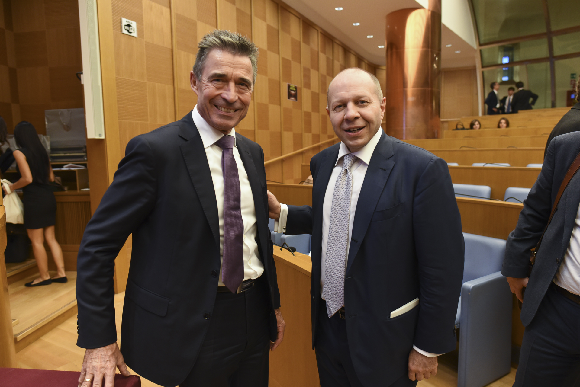 SECRETARY GENERAL NATO ANDERS FOGH RASMUSSEN AND SECRETARY GENERAL ITALY-USA FOUNDATION CORRADO MARIA DACLON